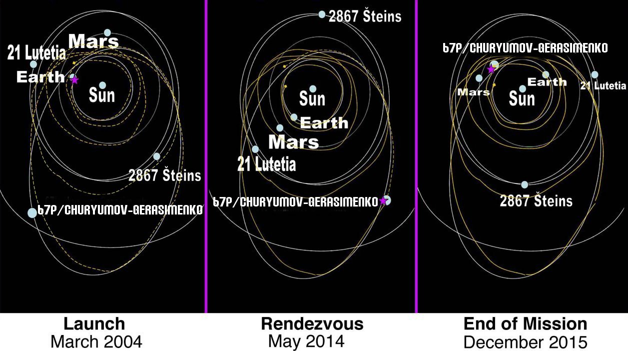 Trajectory of Rosetta Space Probe with slovak headlines